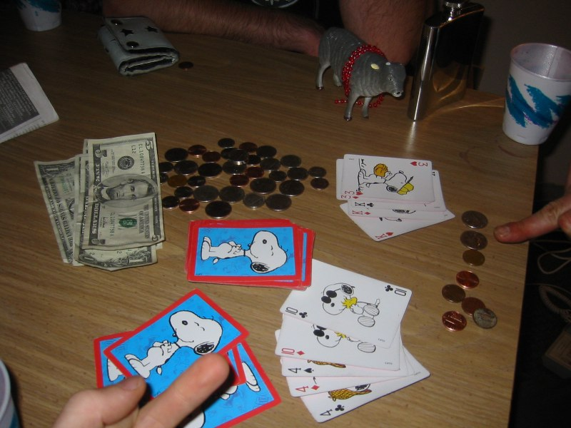 Poker played in a non-casino setting